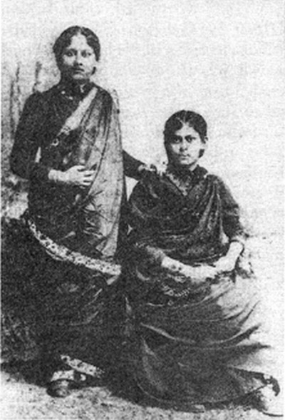 Sarala Devi Chaudhurani (1872–1945) and her sister Hironmoyee